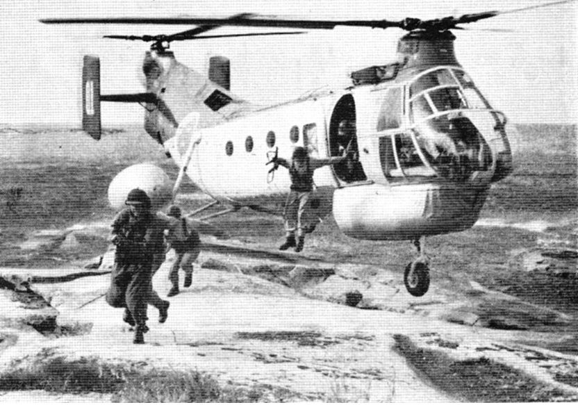 Helicopter Vertol 44 as troop transporter